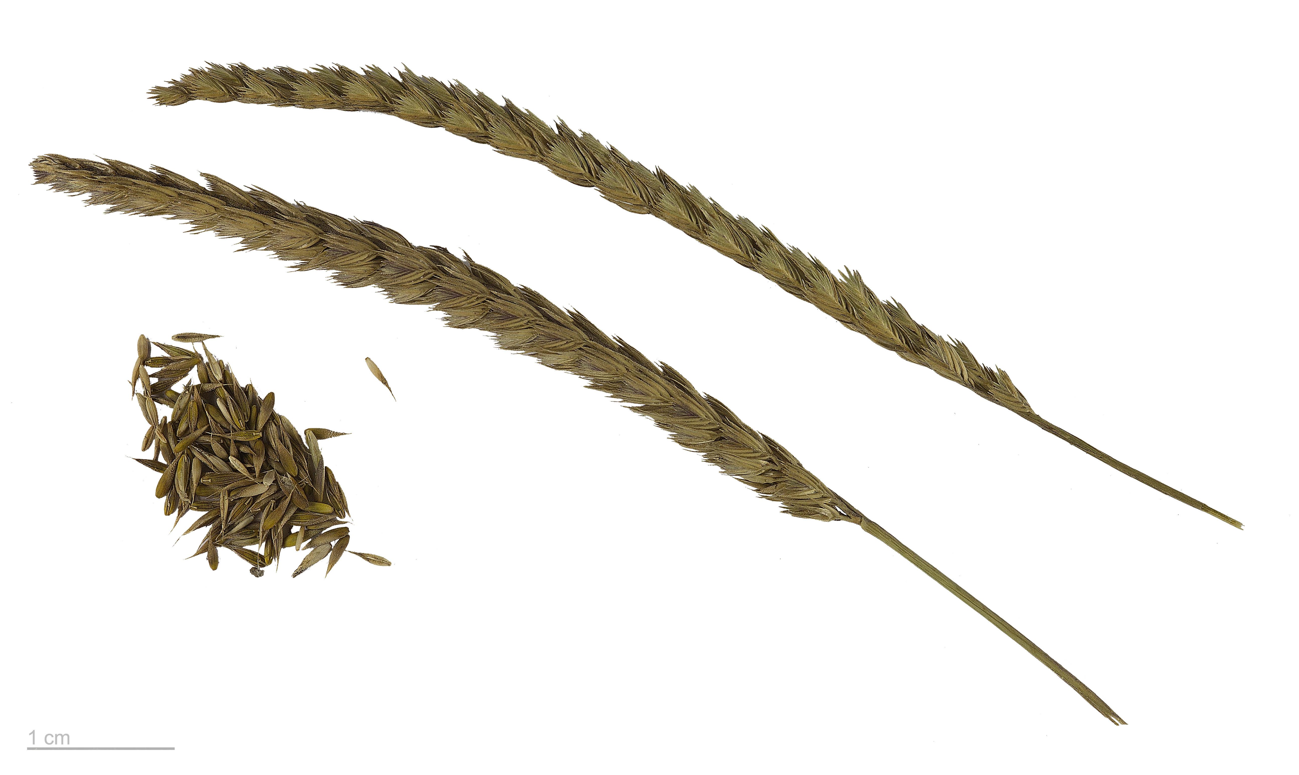 Crested dog's-tail , fruits and seeds